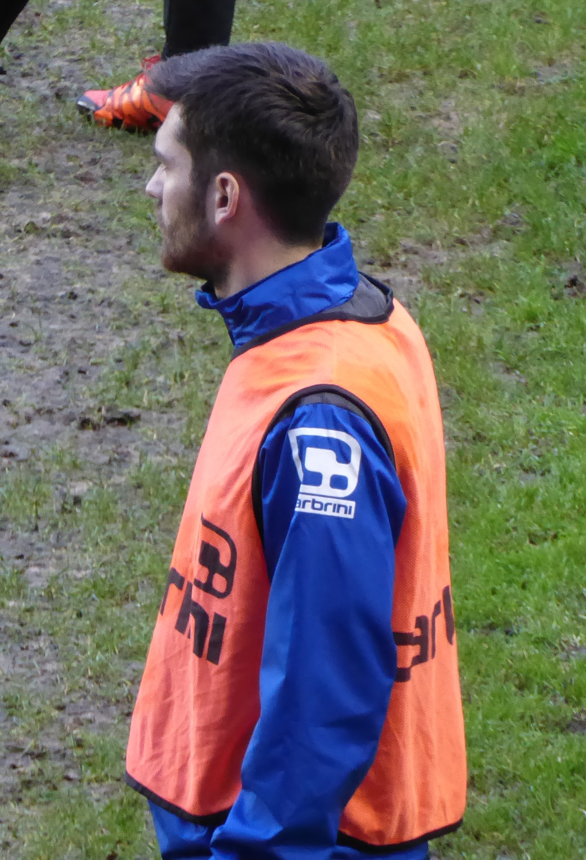 Jon Toral of Birmingham City F.C. warming up during a match at St Andrew's in January 2016